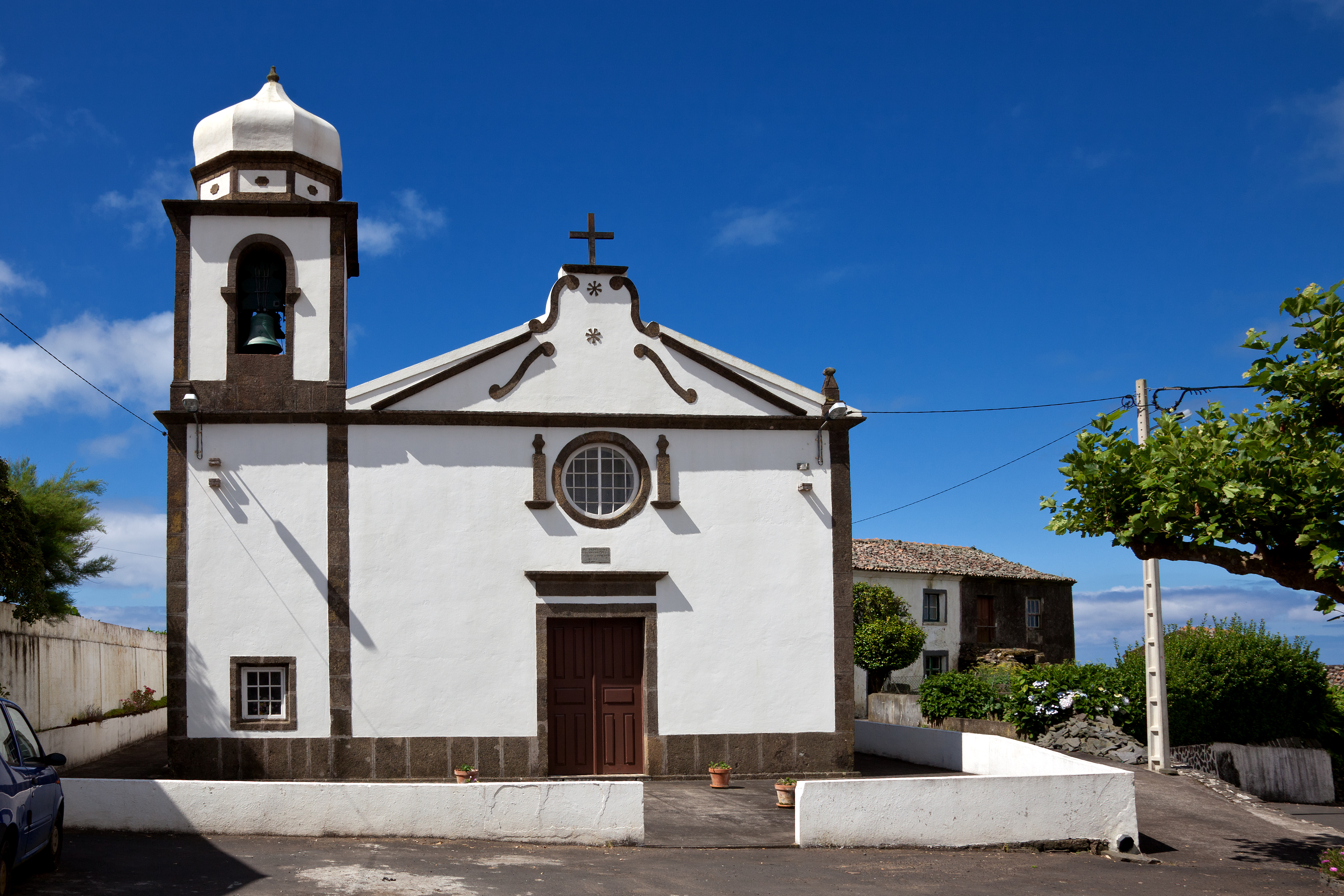 The Church of the Santissima Trinidade, civil parish of Mosteiro, municipality of Lajes das Flores (Azores), Portugal